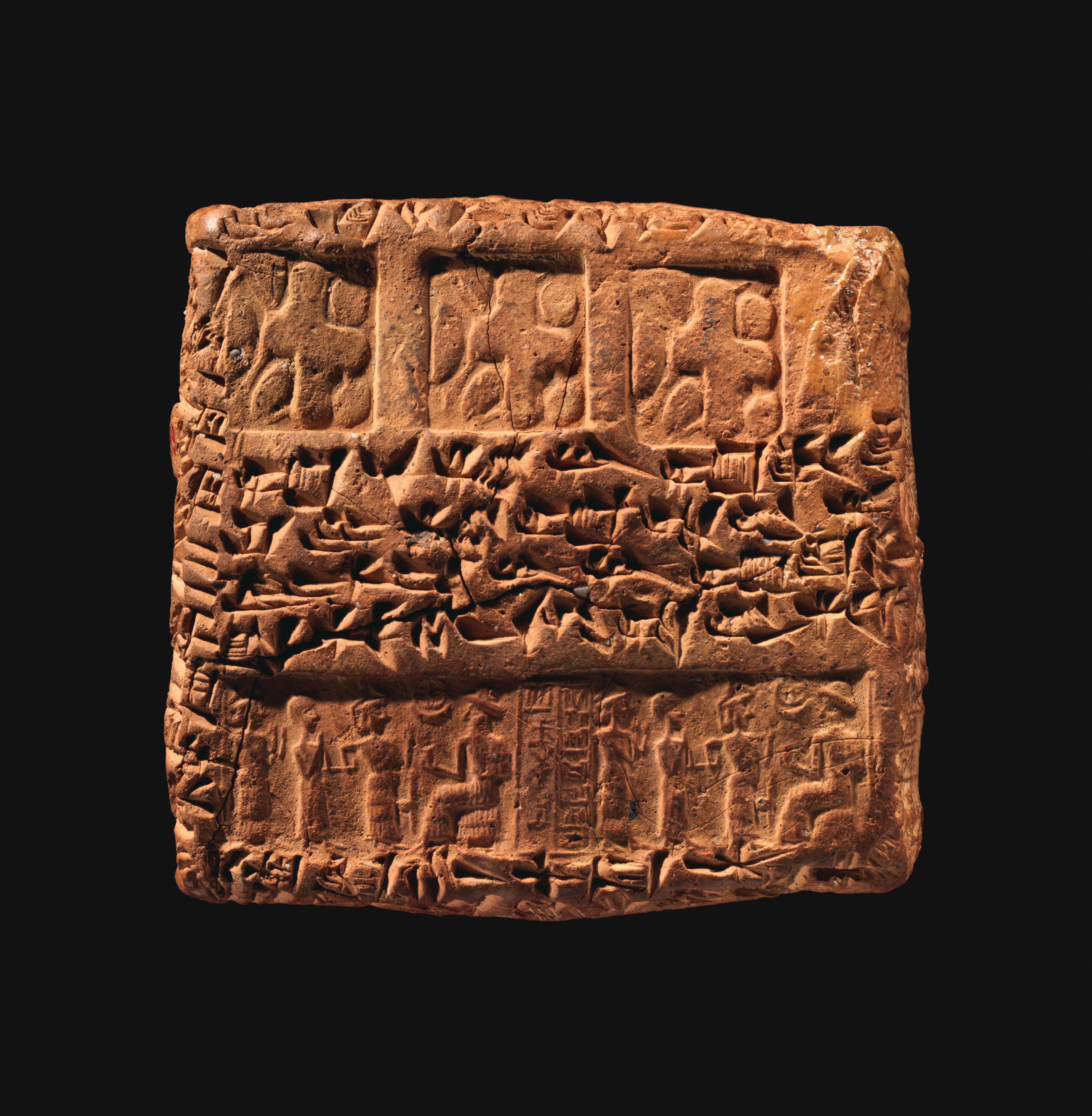 Old Assyrian Trading Colony; Cuneiform tablet case; Clay-Tablets-Inscribed-Seal Impressions